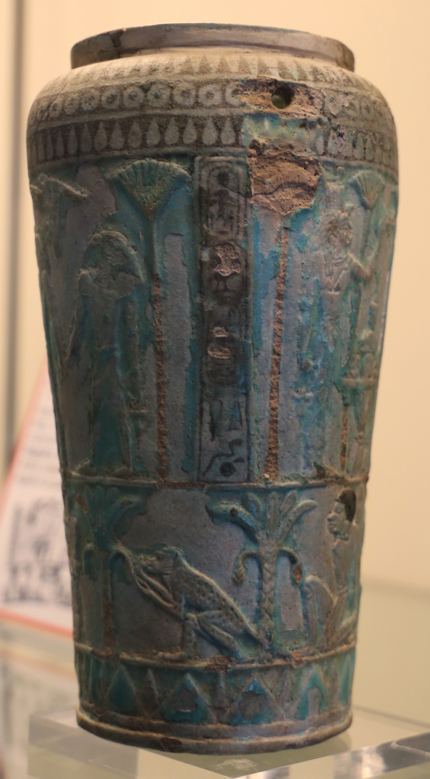 Collections of the Museo archeologico nazionale (Tarquinia)